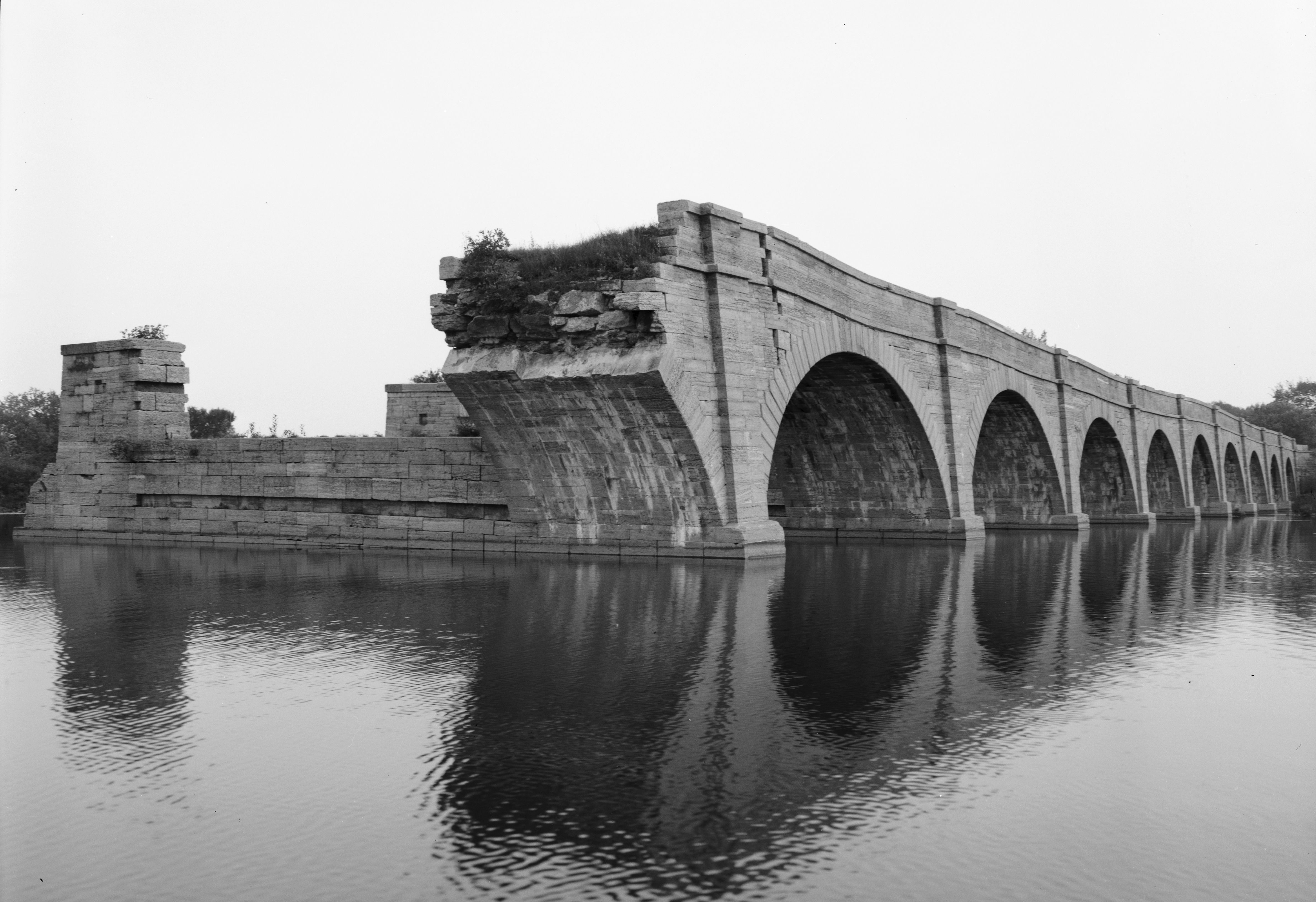 Schoharie Crossing, Erie Canal (Enlarged), 9 arches of aqueduct, at Fort Hunter, New York. HAER image, cropped.